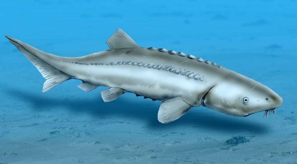 Gyrosteus